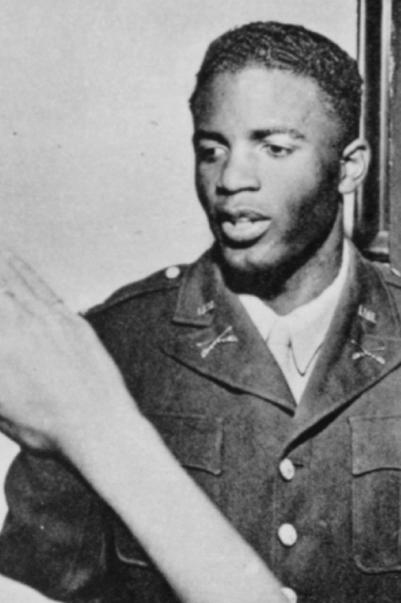 Photo of Jackie Robinson in his military uniform, during a visit to his Pasadena family home, c. 1943. This is a photo taken by a staff photographer of LOOK Magazine, and is part of the LOOK Magazine Photograph Collection at the Library of Congress. Their former owner, Cowles Communications, Inc, dedicated to the public all rights it owned to these images as an instrument of gift. This license does not apply to pictures from the collection which were not taken by the magazine's own photographers. The image used is slightly cropped, eliminating portions of the left, top and bottom of the original image in LOOK Magazine. Picture appears over caption in original article: "On visit to Pasadena home, Lieutenant Robinson inspected this smart salute from nephew, Frank, 13."